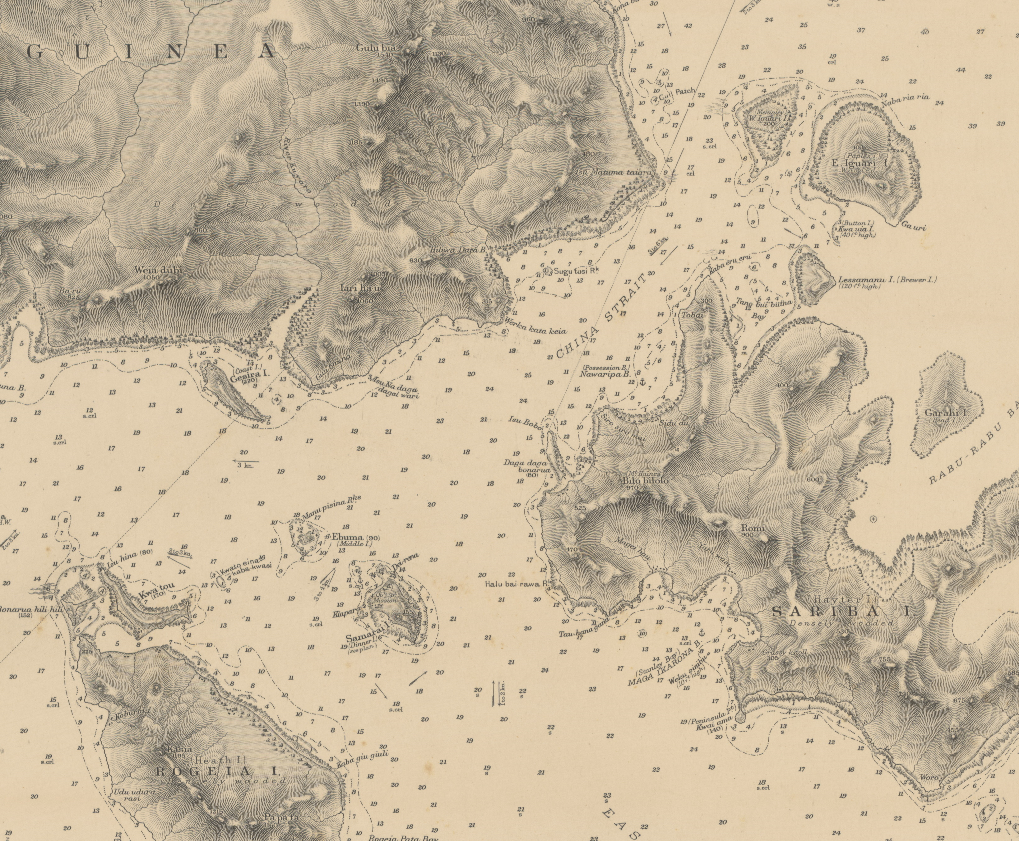 Section of Admiralty Chart No 1088 showing the China Strait, New Guinea